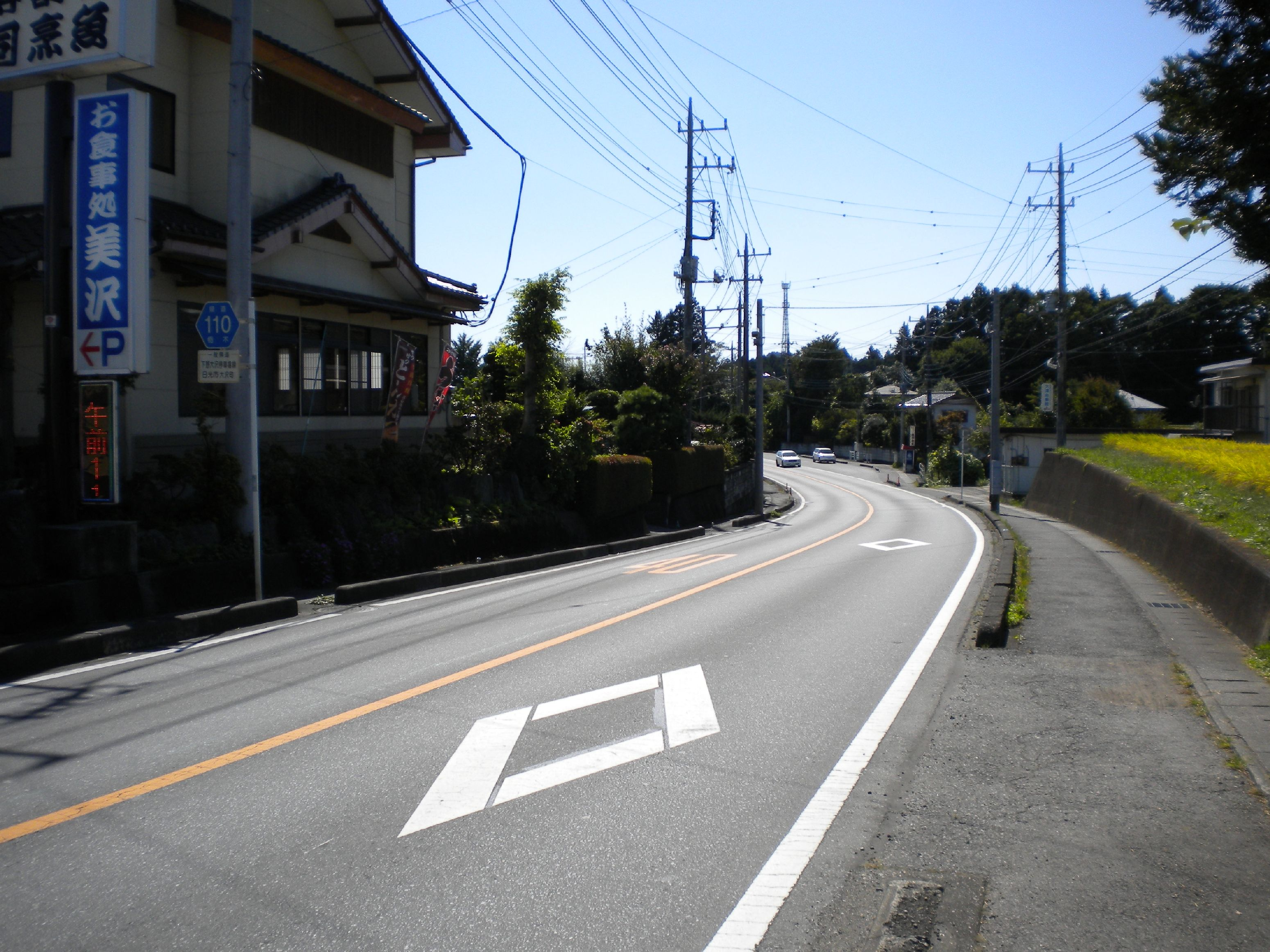 The Tochigi Prefectural Road Route 110 in Osawamachi, Nikko City